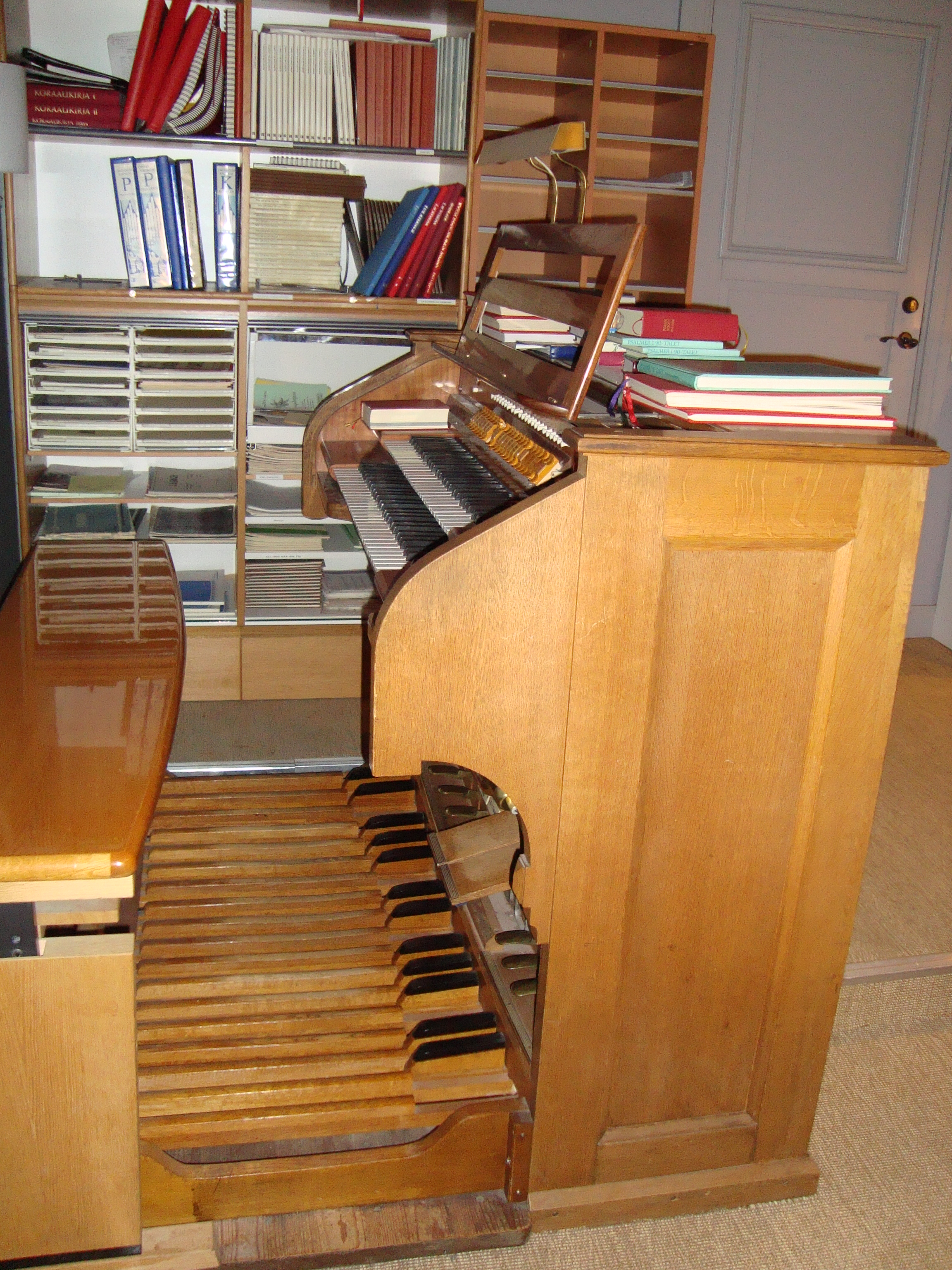 Hagakyrkan, church in Borlänge, Sweden